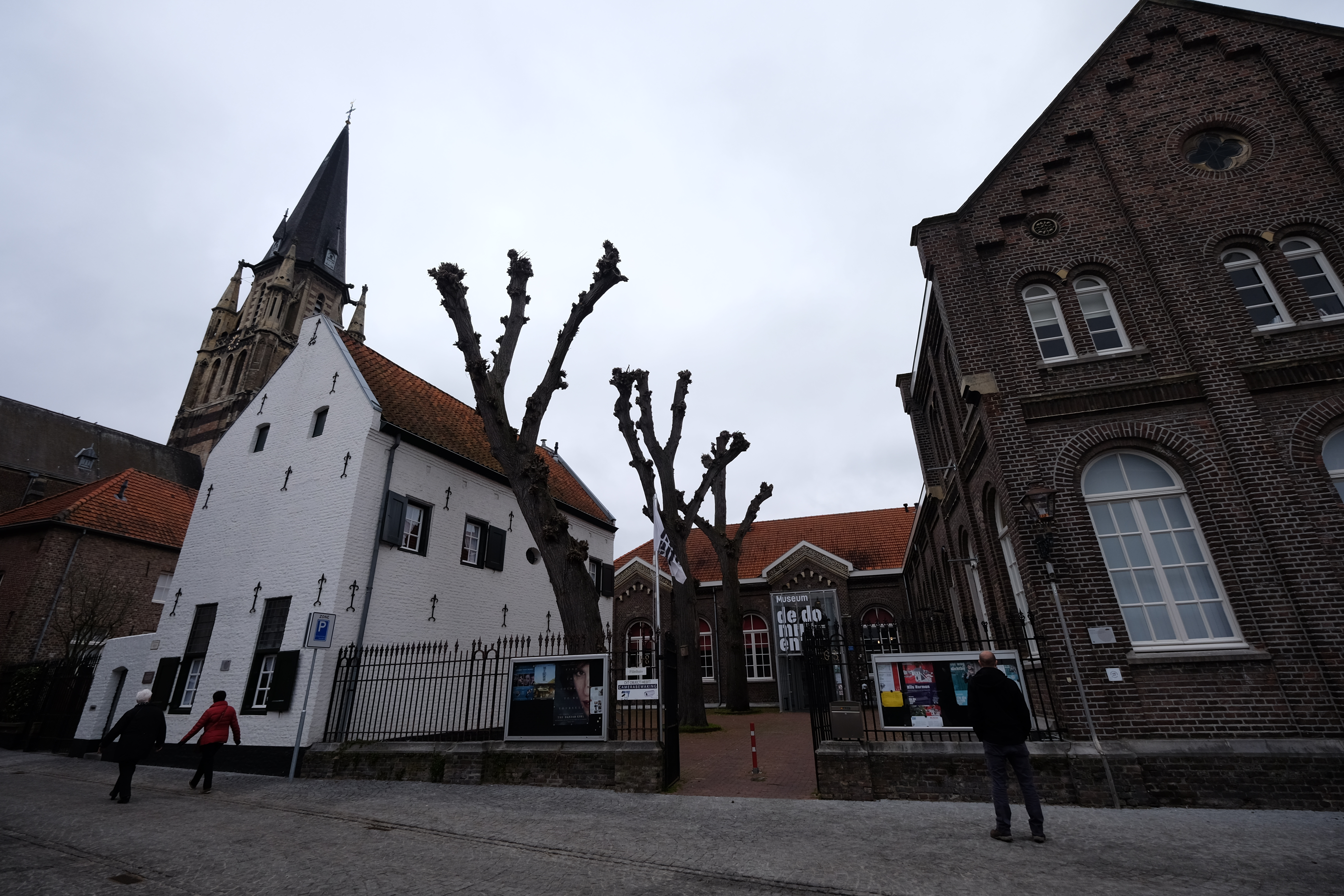 Sittard, Netherlands